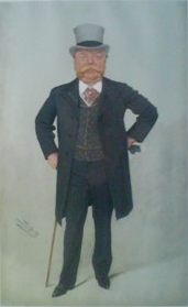 Caricature of Sir Christopher Furness MP DL. Caption read "The Furness Line".